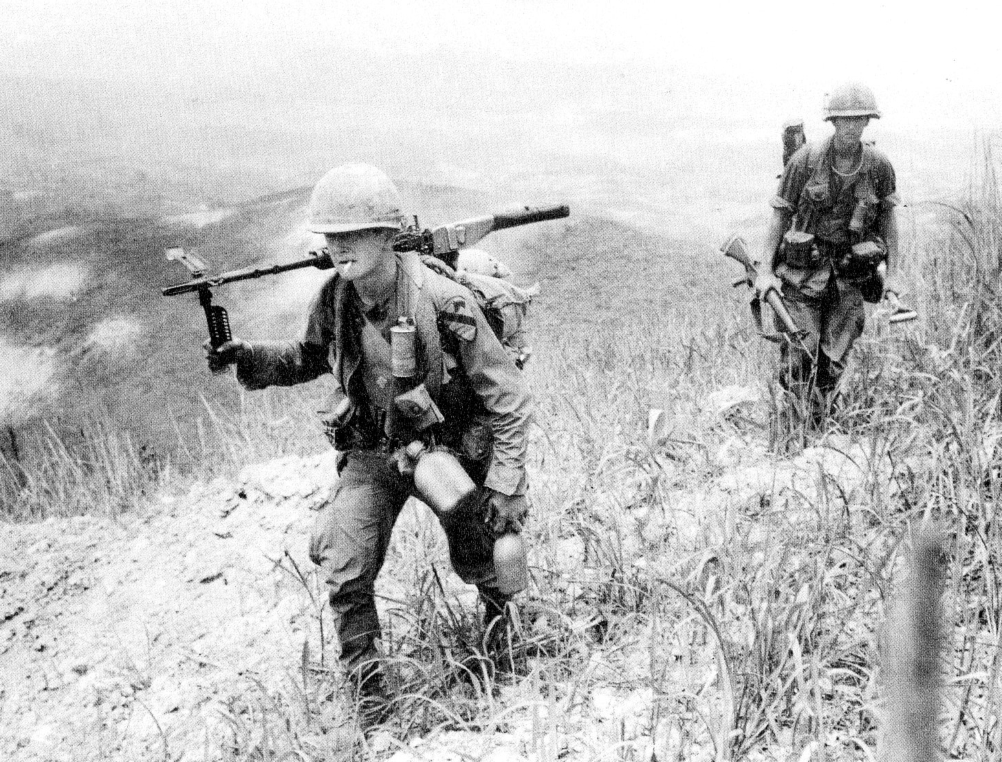 Members of the First Air Cav climb a hill near Khe Sanh